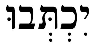 A Hebrew verb with nikkud, including Dagesh and Sheva. Spells the word Yikhtevu, meaning "they write / will write".